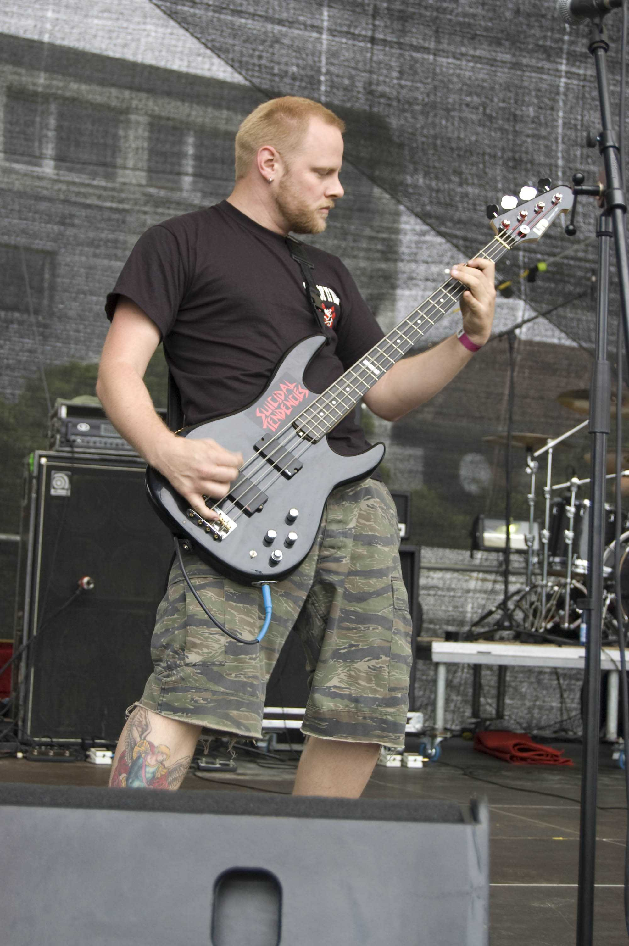 Shai Hulud's bassist Mad Matt Fletcher